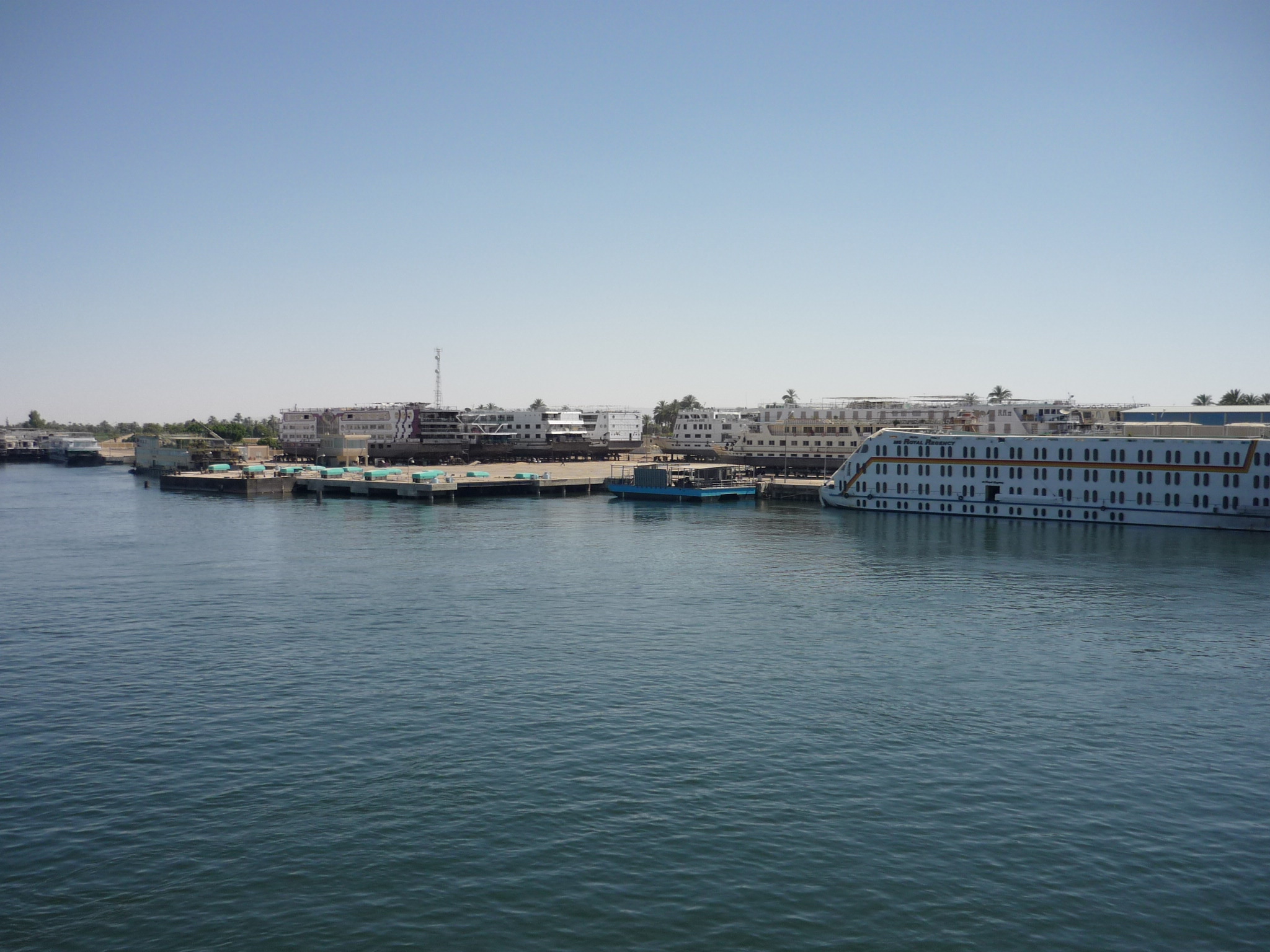 Nile cruise shipbuilding between Luxor and Esna, Egypt